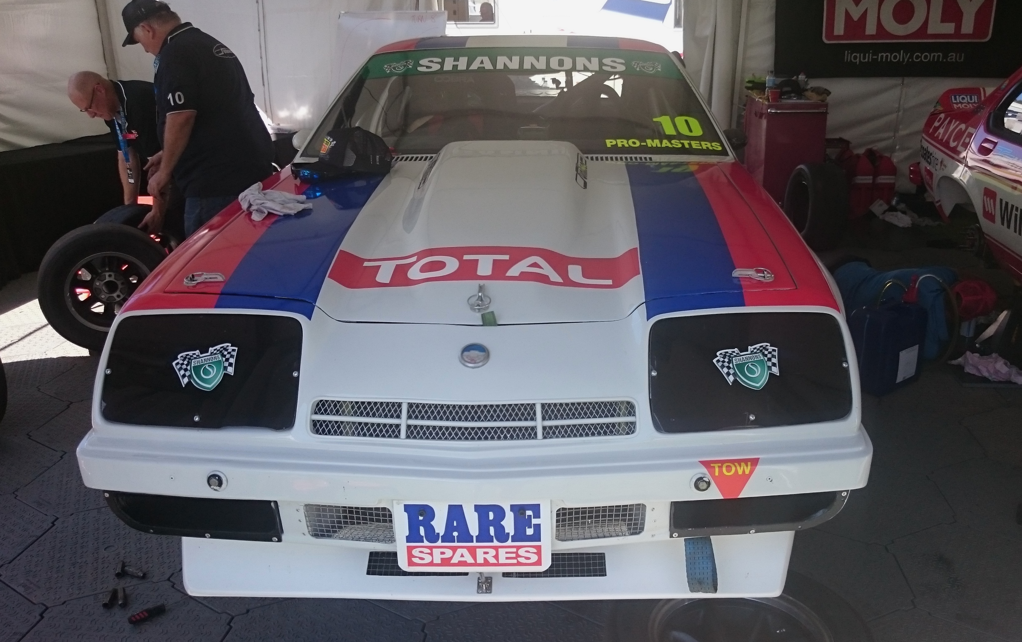 1975 Chevrolet Monza of Greg Ritter. Adelaide Parklands Circuit, Round 1, 2016 Touring Car Masters.